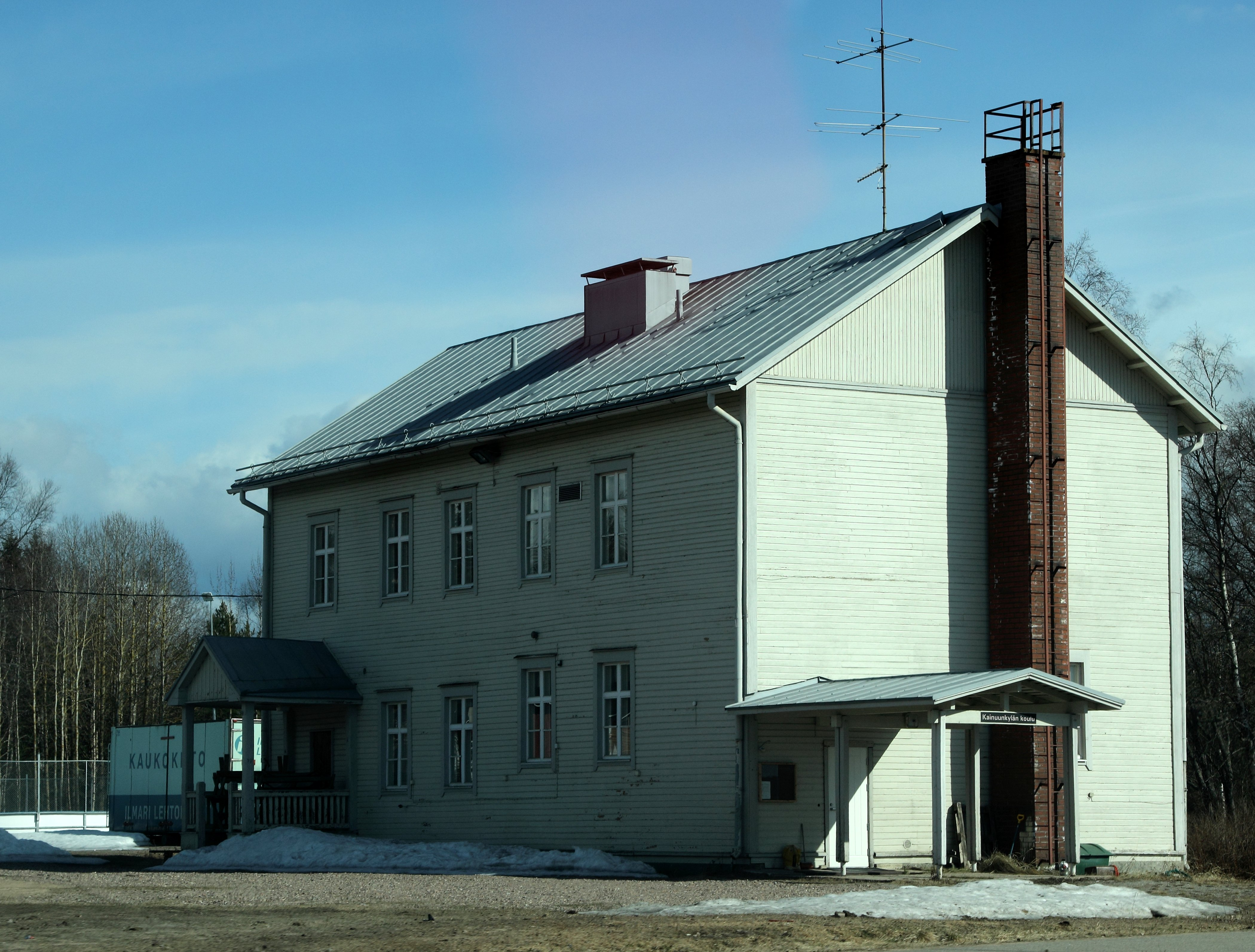 The Kainuunkylä primary school in the Kainuunkylä village of the Ylitornio municipality in Finland.